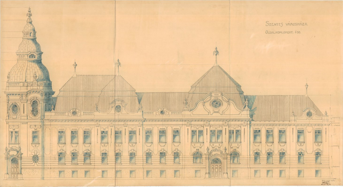 Szentes town hall blueprint (Alois Bohn, 1907)